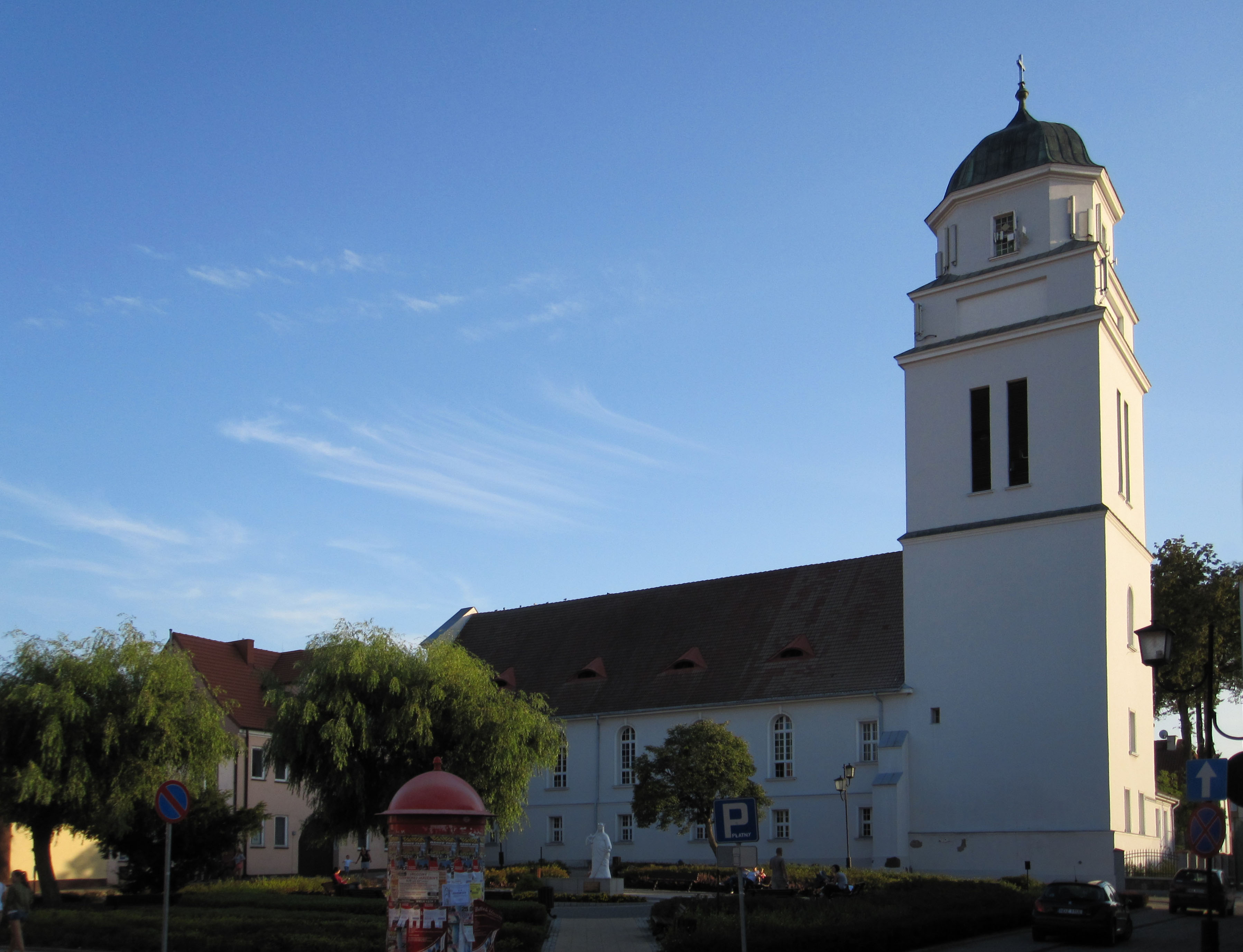 Działdowo - Church of the Exaltation of the Holy Cross